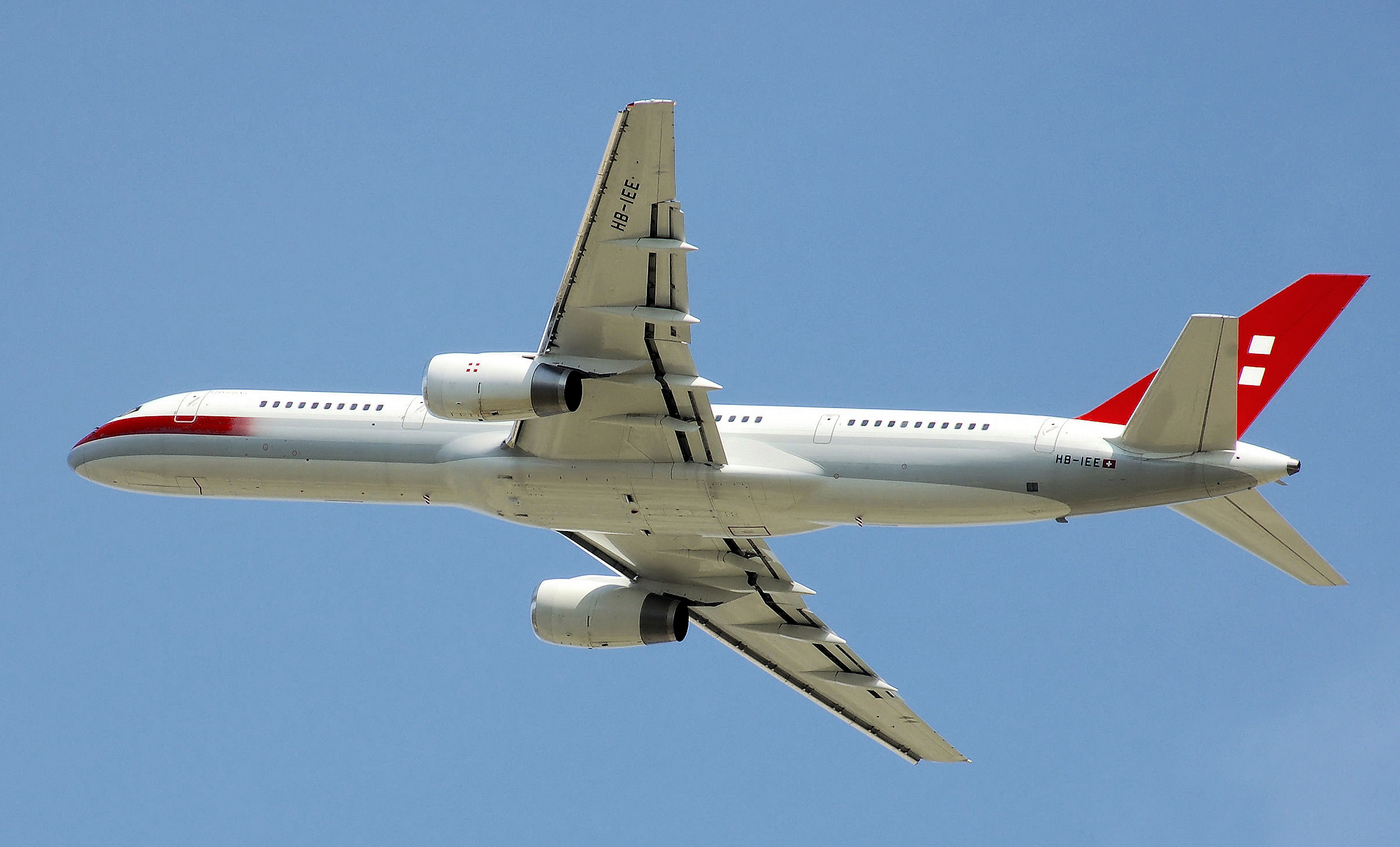 PrivatAir Boeing 757-200 (HB-IEE) taking off from London Heathrow Airport.